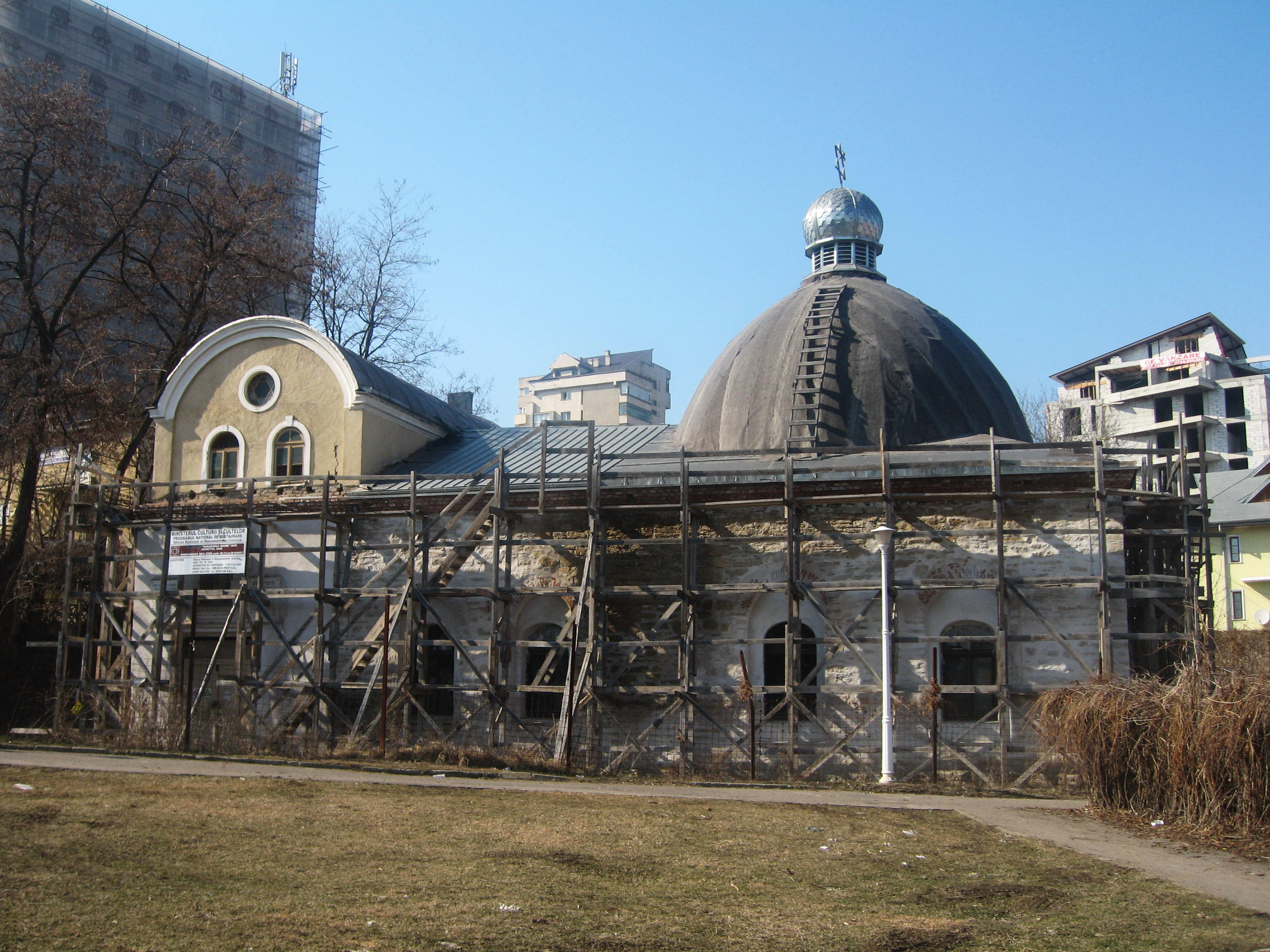 The Great Synagogue in Iaşi